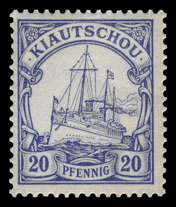 20 Pfennig blue, issue 1901 for KIAUTSCHOU territory Ausgabepreis: 20 Pfennig First Day of Issue / Erstausgabetag: Januar 1901 Michel-Katalog-Nr: 8 (Deutsche Kolonie Kiautschou)